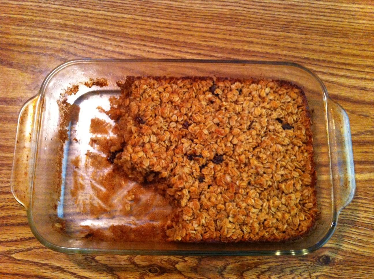 A dish of baked oatmeal, prepared with eggs, milk, spices, baking powder, raisins